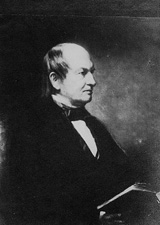 Albert Collins Greene, U.S. Senator from Rhode Island (1792-1863)